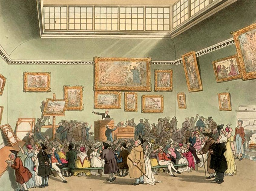 Christie's auction room in London: This engraving was published as Plate 6 of Microcosm of London (1808) (see File:Microcosm of London Plate 006 - Auction Room, Christie's.jpg).